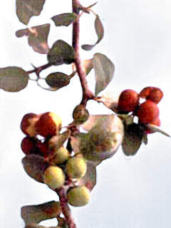 Ziziphus mistol branch with ripe fruit